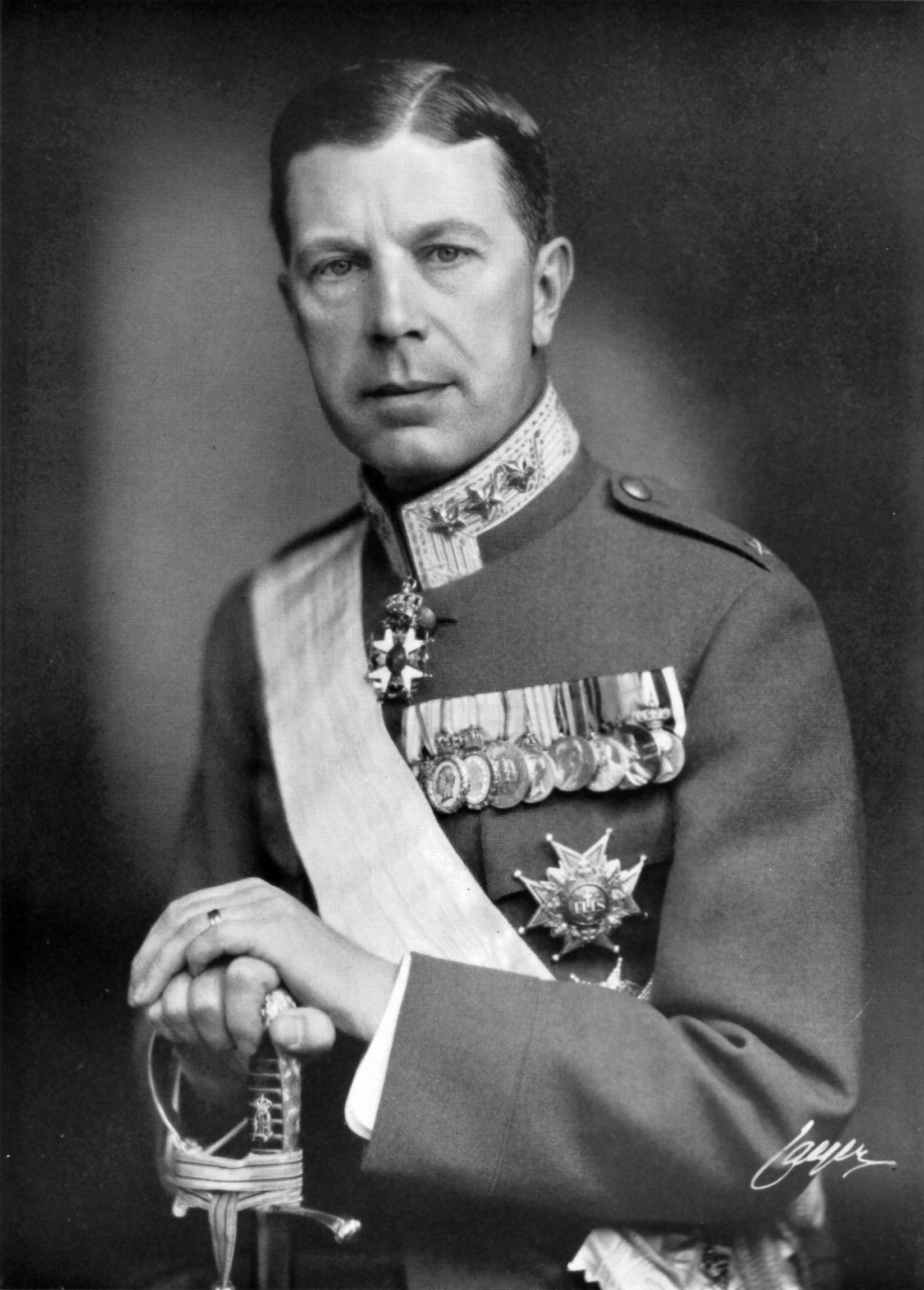 Gustaf VI Adolf of Sweden as Crown Prince.